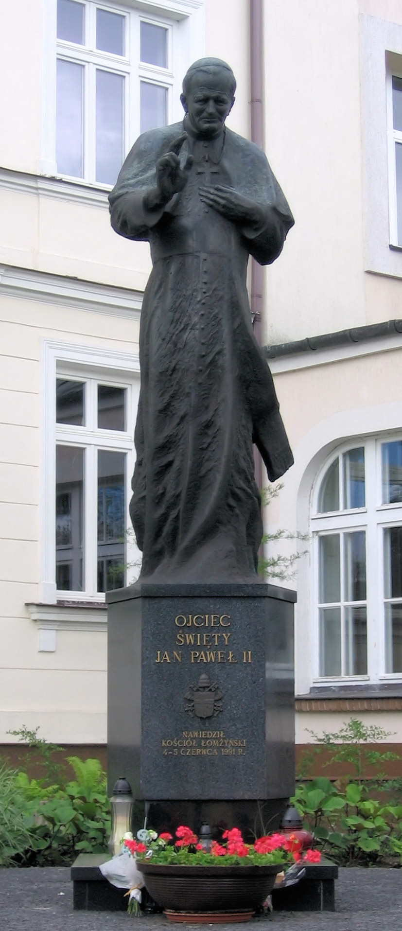 Monument of Pope John Paul II in Łomża Annotation on the monument: Holy Father John Paul II; Attended Łomża Church; 4th-5th of June 1991